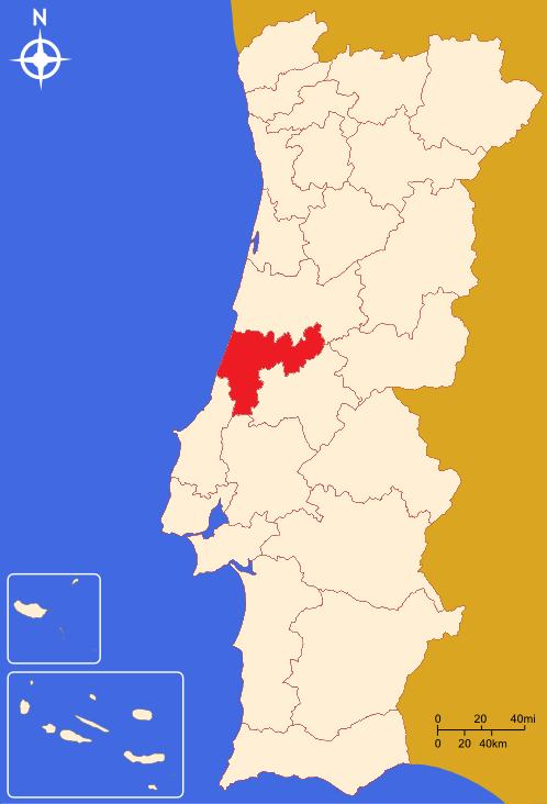 Comunidade Intermunicipal da Região de Leiria